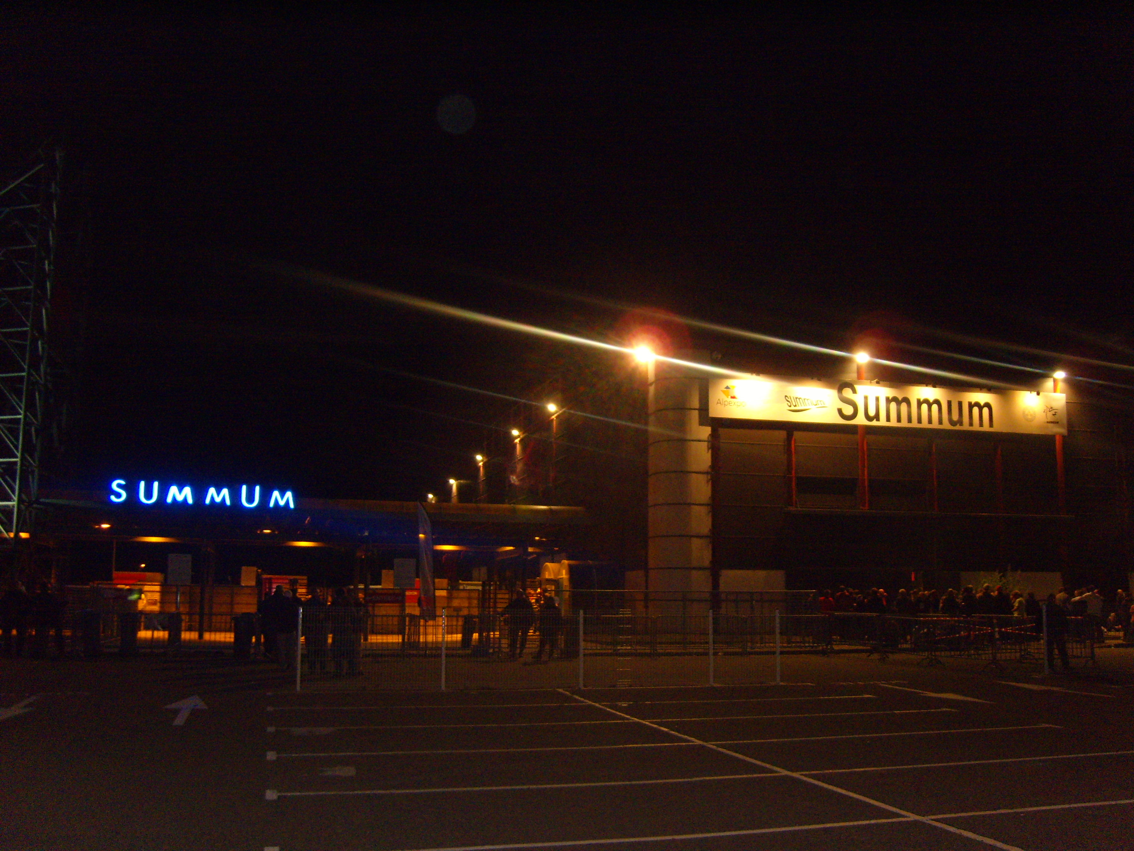 The "Summum" concert hall of Grenoble, France.